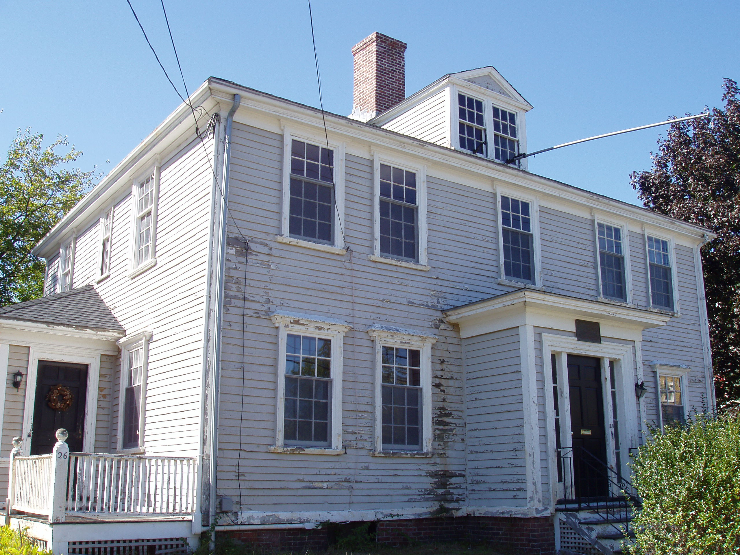 Fowle House - Watertown, Massachusetts. Photograph taken by me, October 2005.